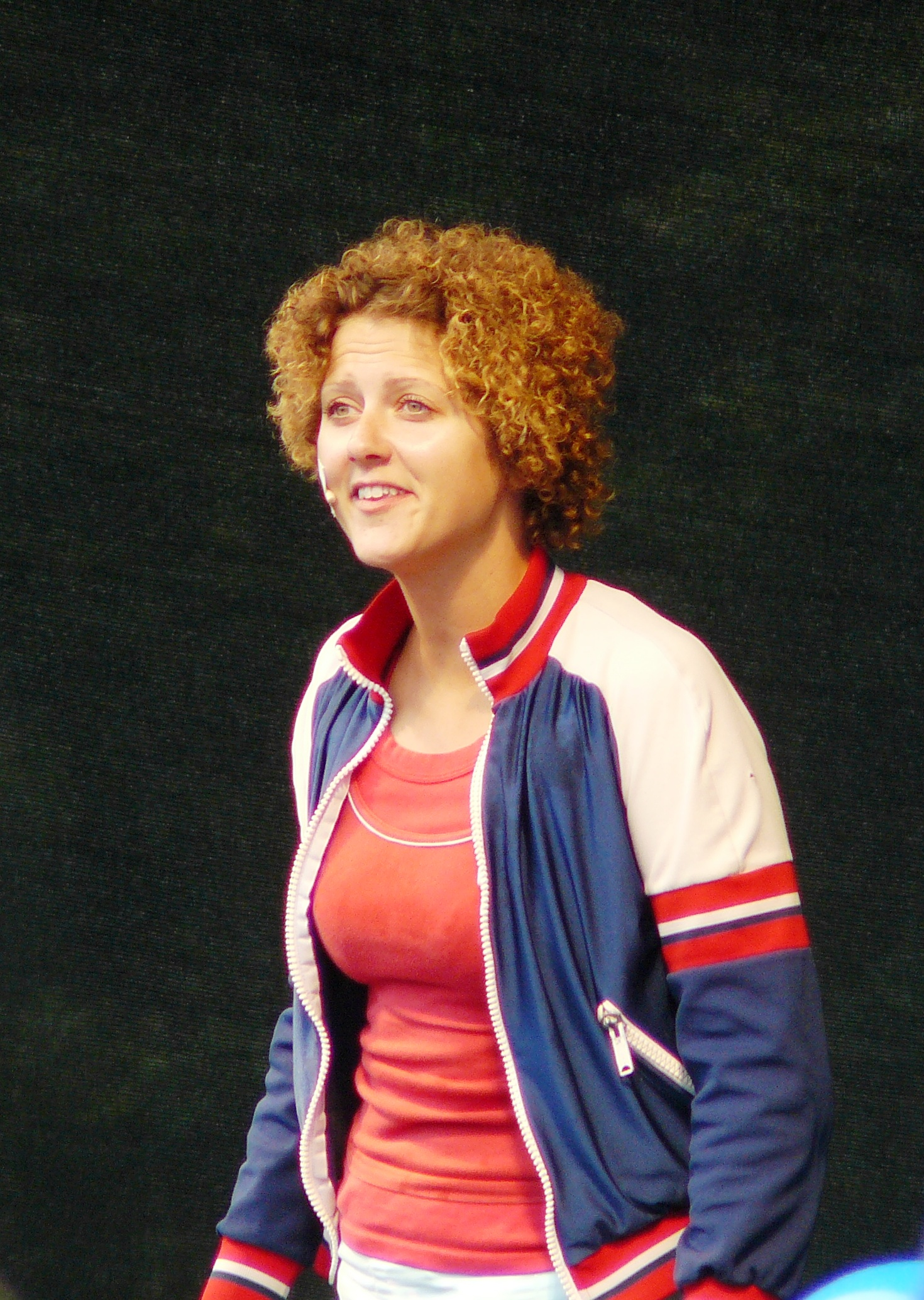 Margrethe Røed, Norwegian TV-celebrity and host of children programs